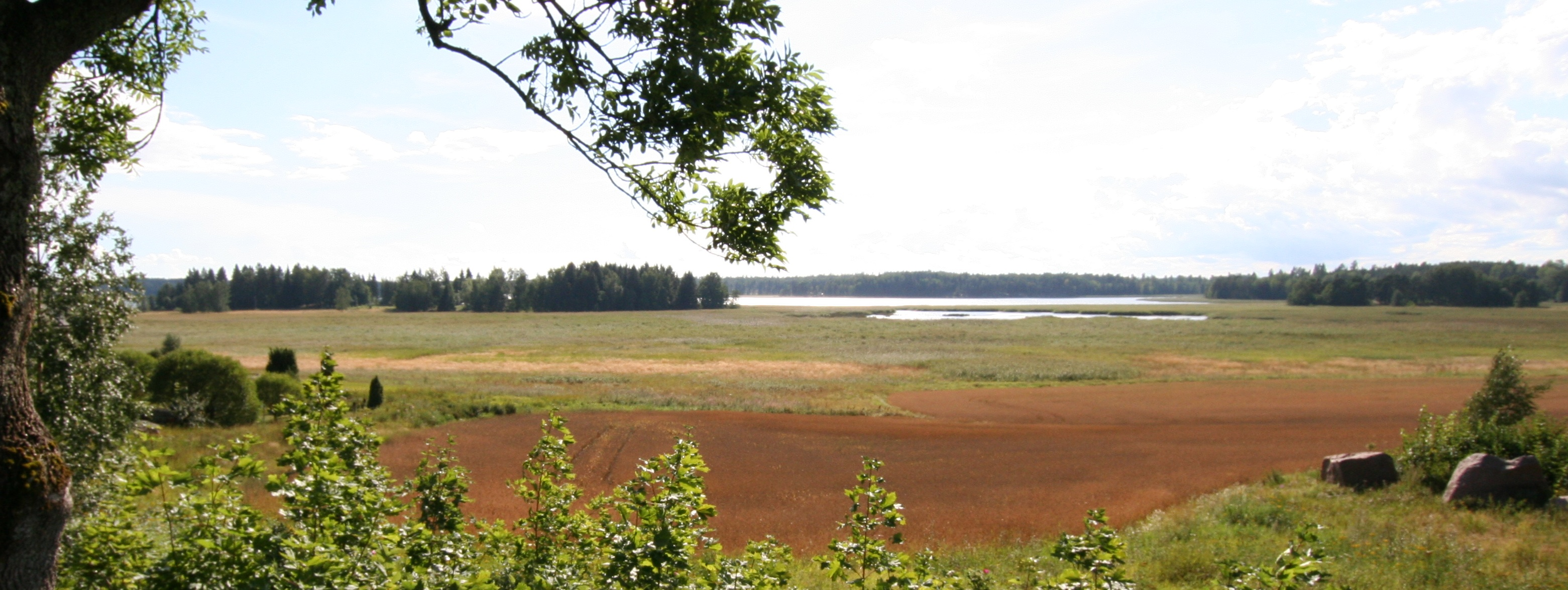 Pernajanlahti. Ramsar area.